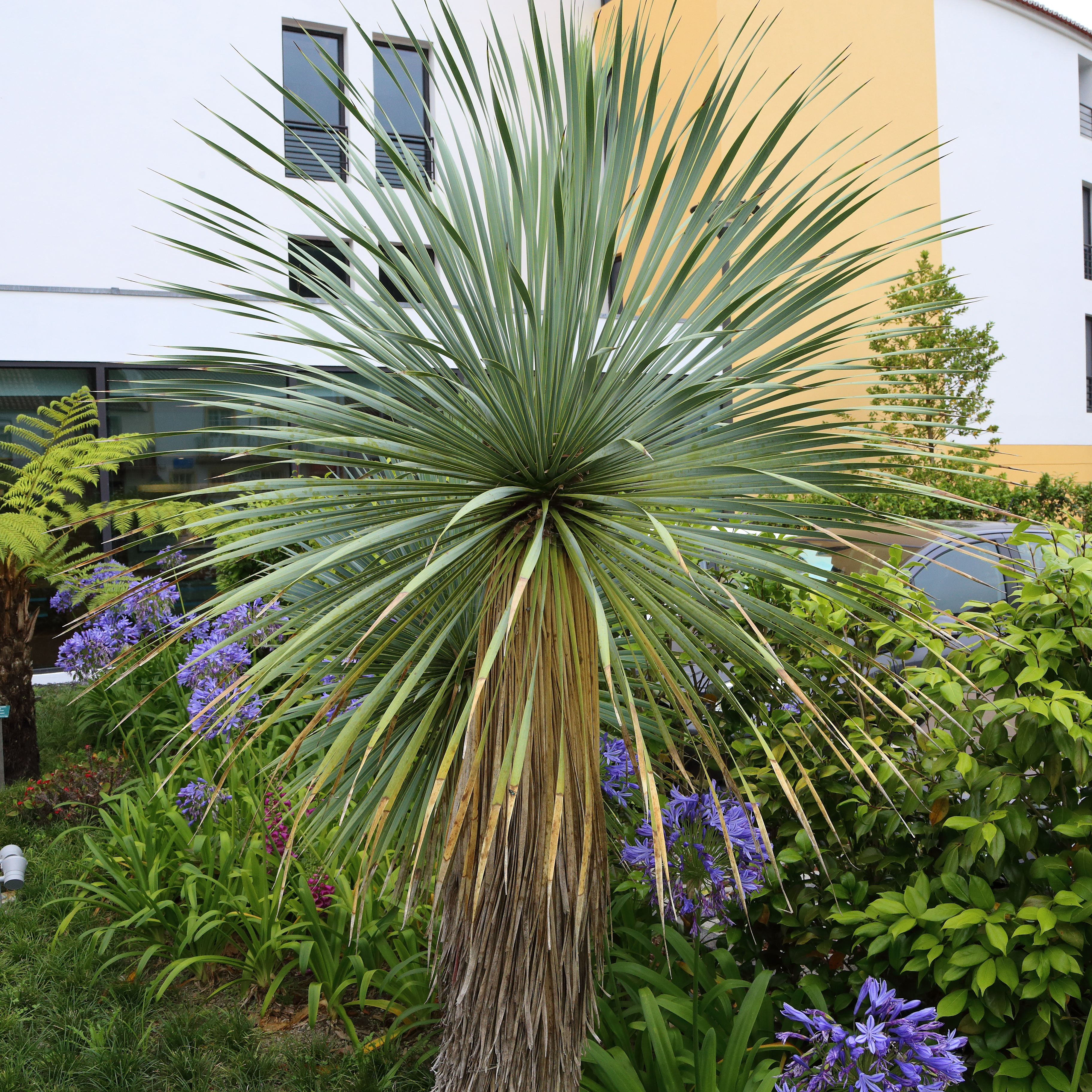 Yucca rostrata